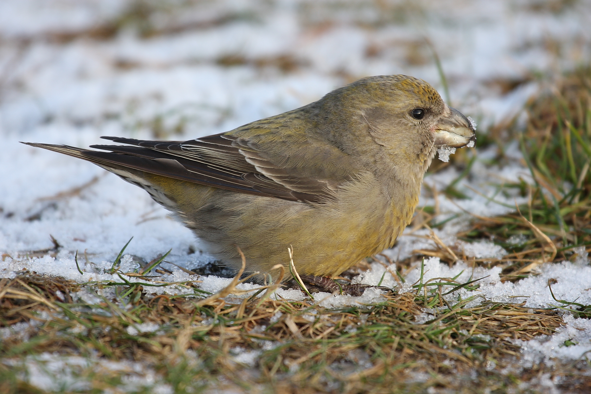 Parrot Crossbill, Lista Norway